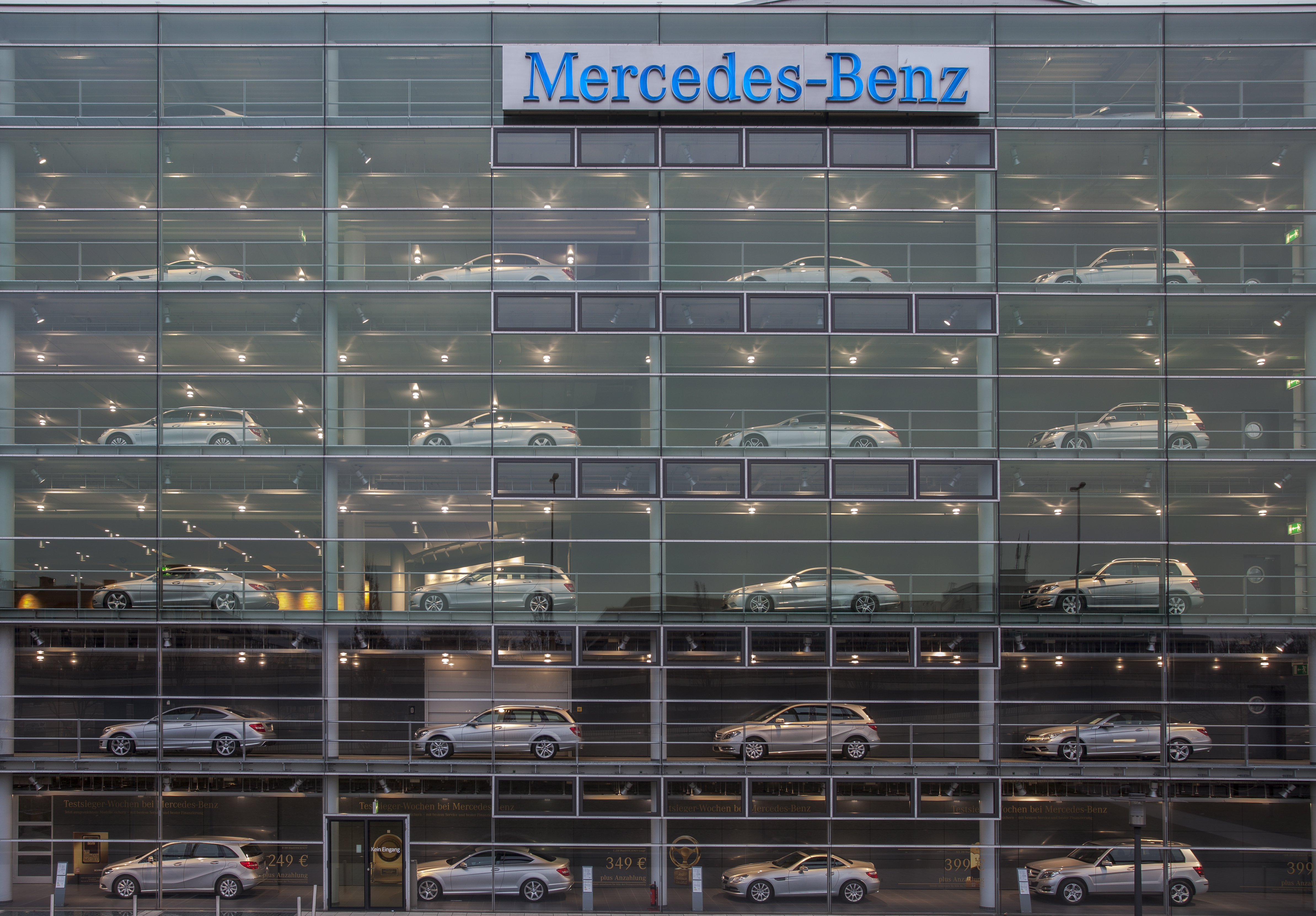 Mercedes-Benz dealership, Munich, Germany